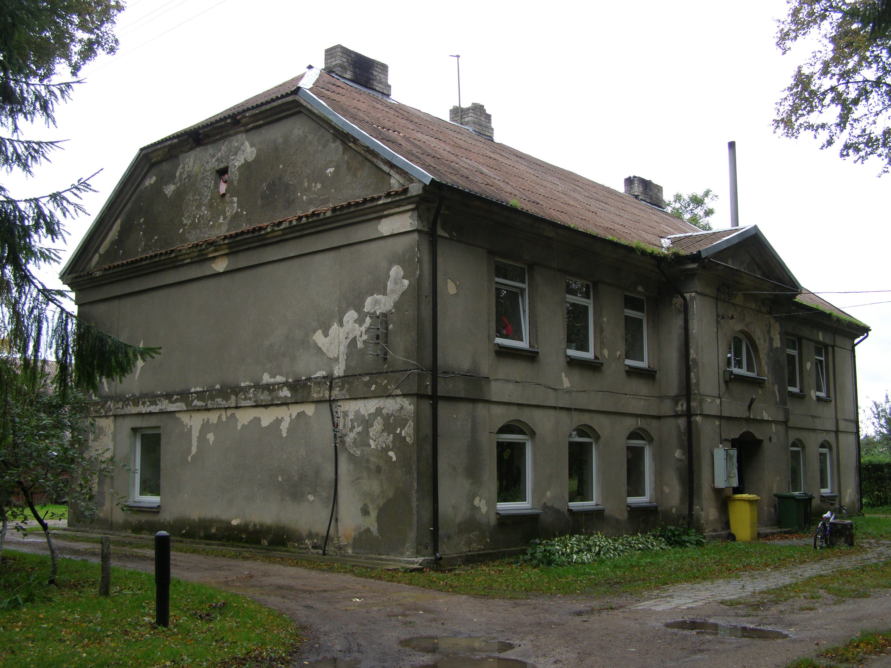 Dimitravas, Kretinga district, LithuaniaLietuvių: Dimitravo palivarko administracinis pastatas, Kretingos rajonas, Lietuva